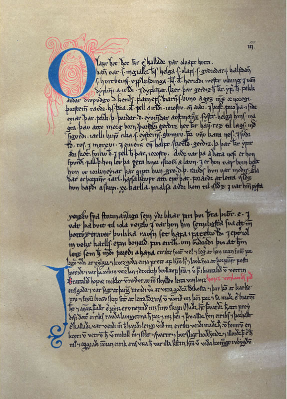 Saga of Eirk the Red - XIII Century